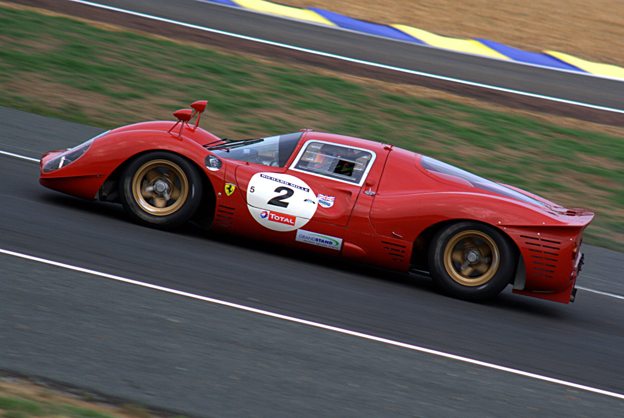 Ferrari 330 P3, 1966 model, le Mans classic 2003, 7th July 2006